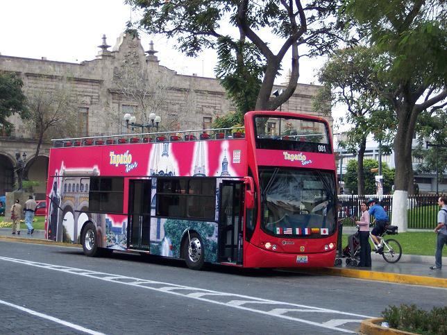 Description: Tapatio Tour Bus Source: Own Job Date: 3-January-05